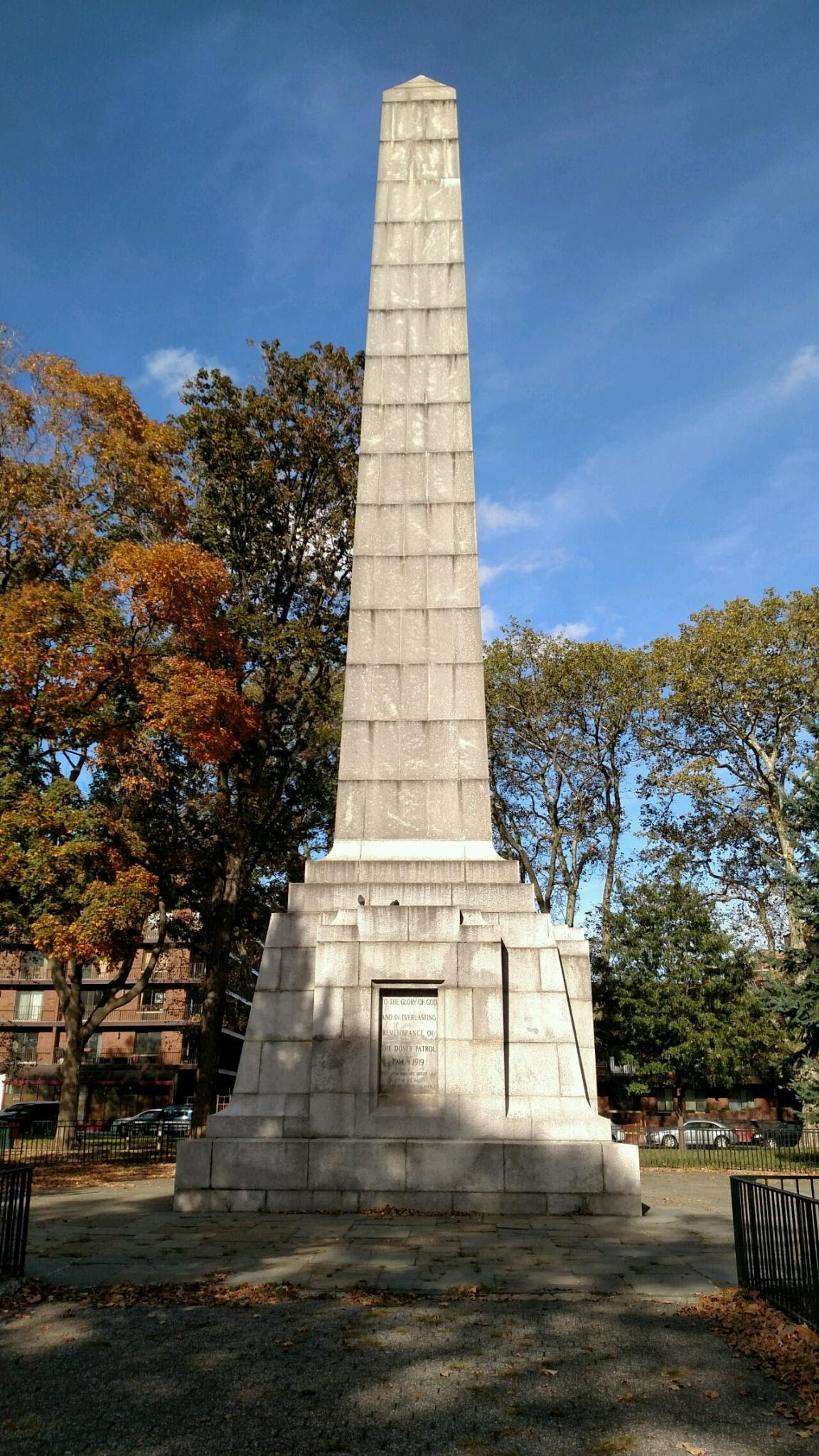 Granite monument featured in the Dover Patrol Naval War Memorial at John Paul Jones Park (picture taken October 2016)